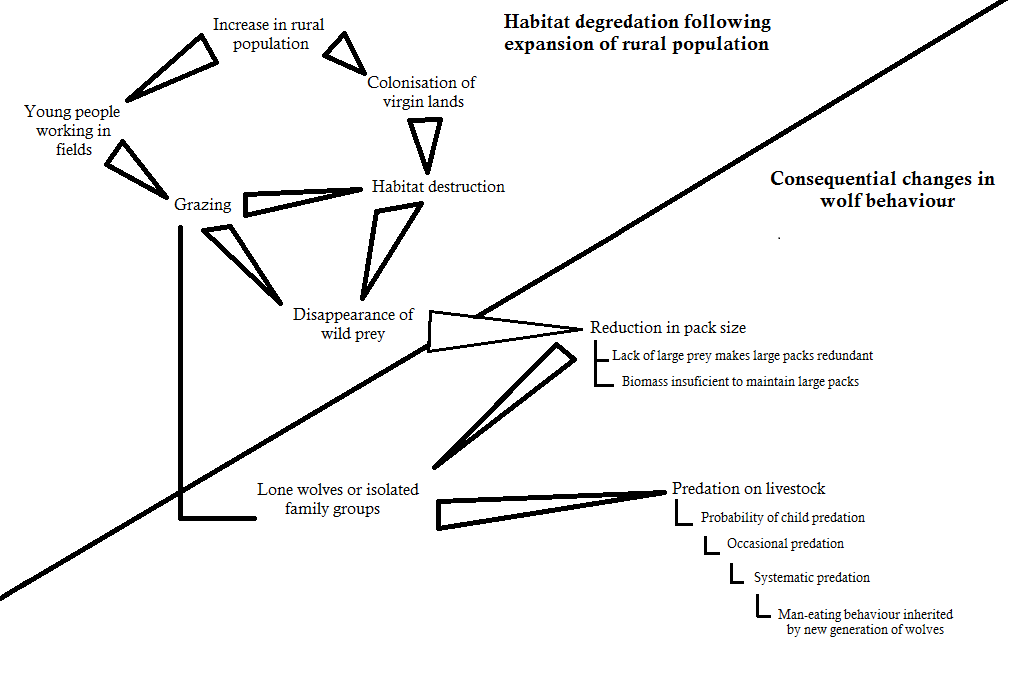 Chart showing the theoretical stages leading up to wolf attacks on humans in 15th-19th century Italy, based on table 6 of Cagnolaro 1992.